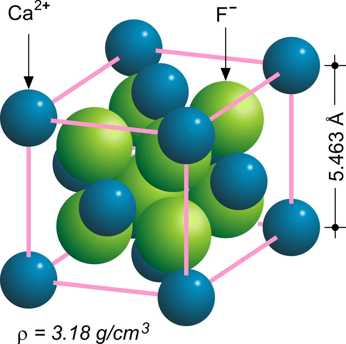 The Fluorite structure. In the CaF_2 the fluorite ions occupy the eight tetrahedral interstitial sites whereas calcium ions occupy the regular sites of an FCC structure (Costel Rizescu, Shutter Waves).